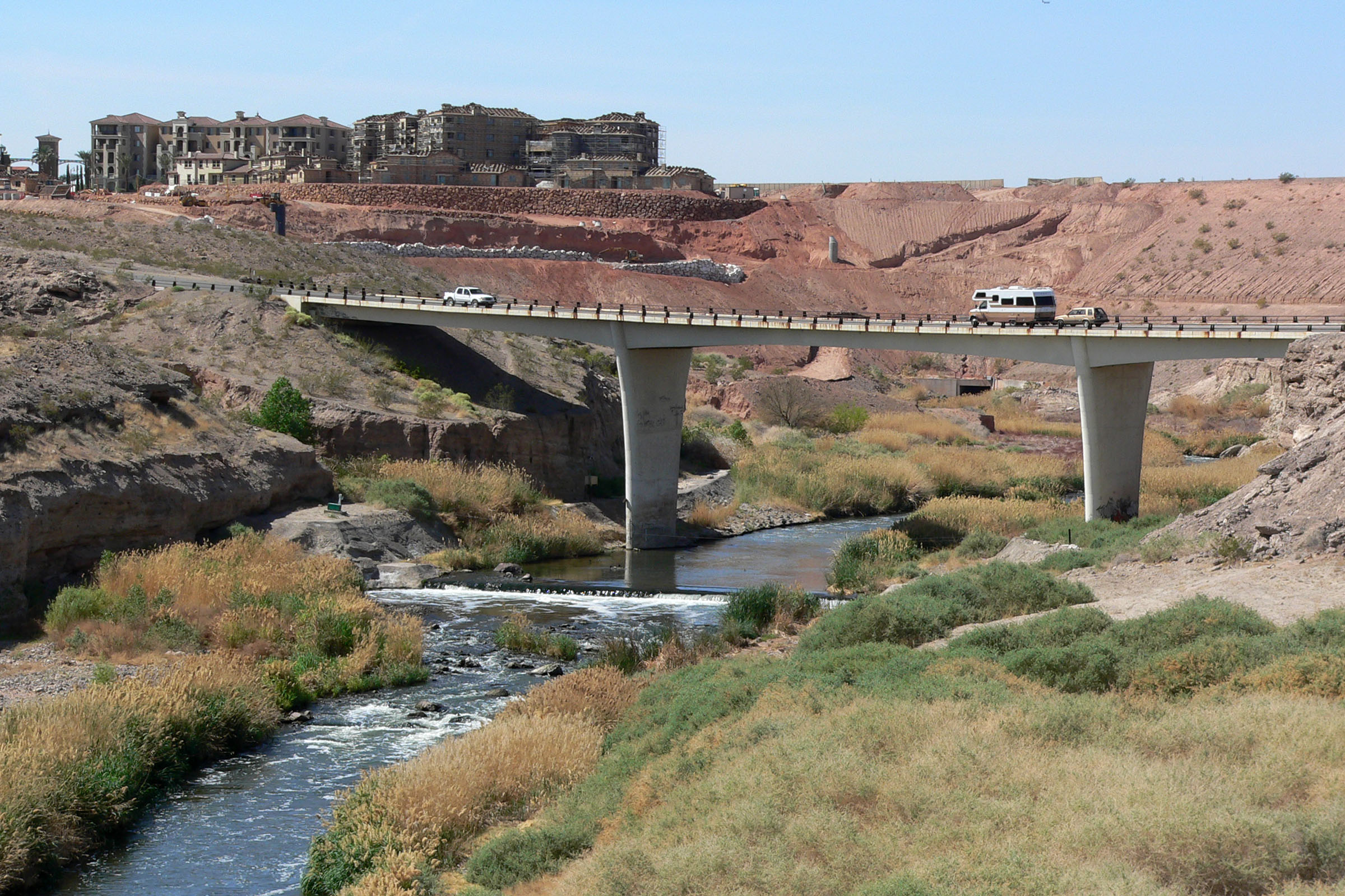 Lower Las Vegas Wash just below Lake Las Vegas, southern Nevada